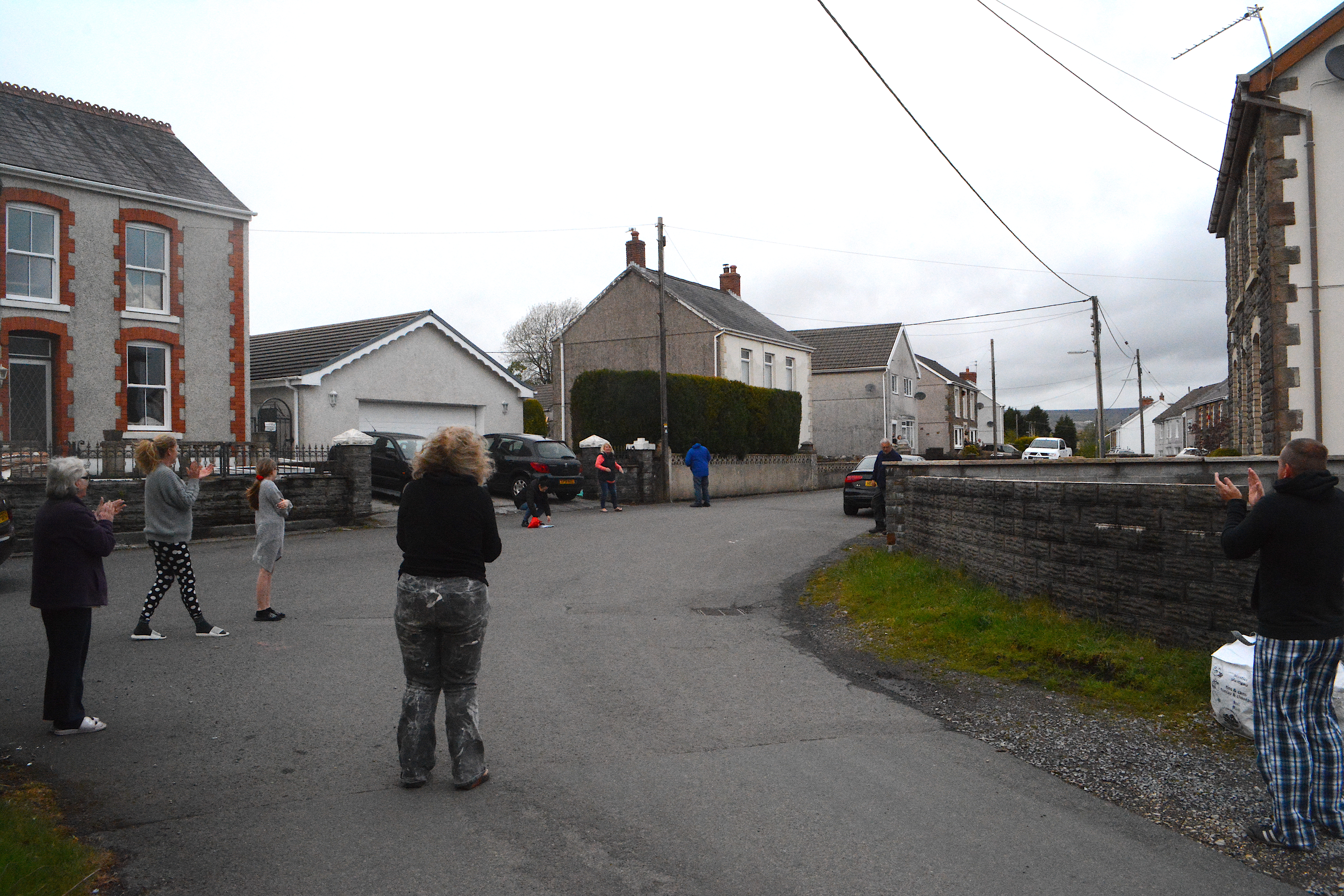 We live a few hundred metres from the road so each week we walk down to join in with the communal Clap in support of the NHS. This week the weather wasn't great but everybody was out. Sadly, what we really need is not for people to clap but to vote for a government that will properly fund the NHS (but don't get me started) 81 On the street where you live for 120 pictures in 2020